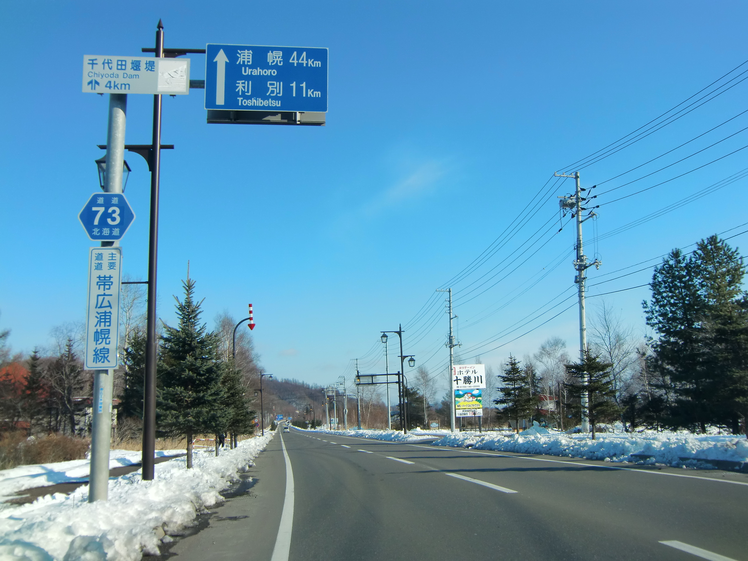 Hokkaido prefectural road 73 (Obihiro-Urahoro line) in Tokachigawa-Onsen-Kita, Otofuke town, Kato county, Hokkaido, Japan